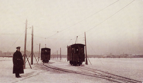 Trams ride on the ice of Newa river, Saint-Petersburg, end of 19th or just the beginning of 20th century. Photo from the collection of Hermitage museum, by photographer Karl Bulla.)